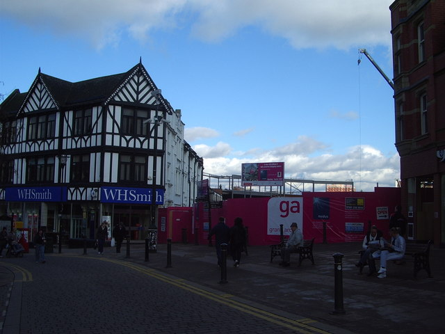 The Grand Arcade To the right of WH Smith was Station Road. This has now become "The Grand Arcade".